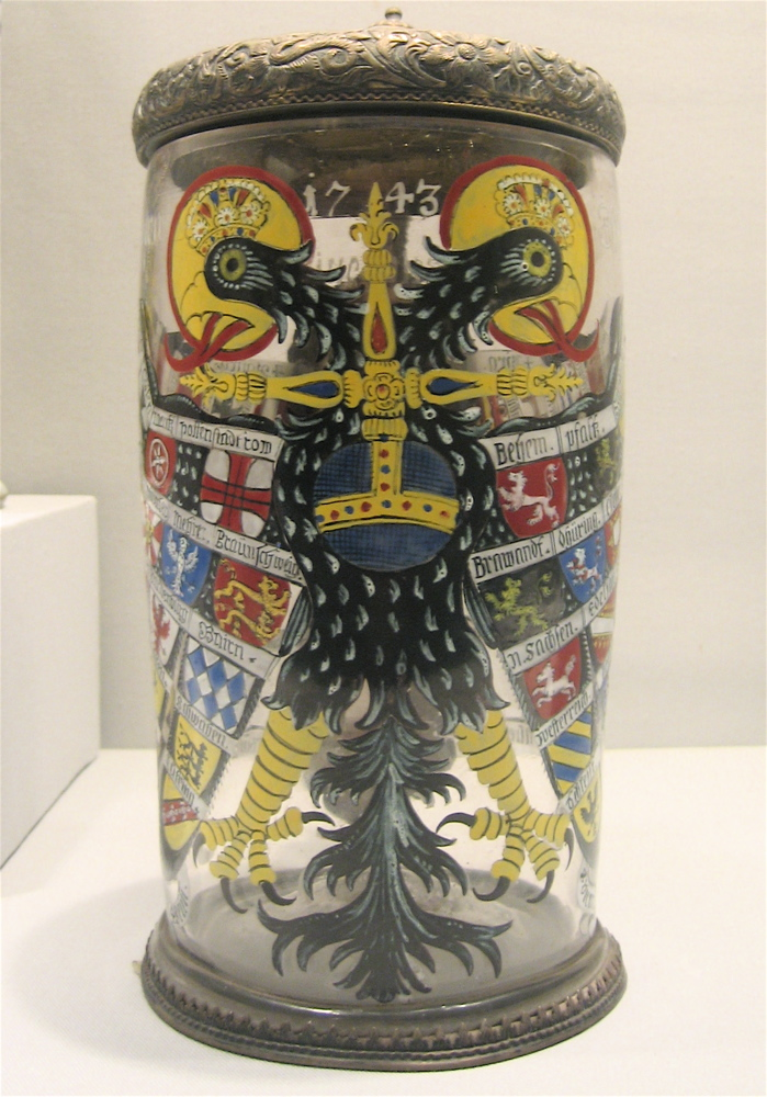 Central Germany Covered Tankard with Arms of the Holy Roman Empire (Reichsadler Stein), 1743 Glass, Glass, enamel, silver, Height: 9 3/4 in. (24.77 cm) William Randolph Hearst Collection (48.24.111a-b) Wikipedia Loves Art at the Los Angeles County Museum of Art This photo of item # 48.24.111 at the Los Angeles County Museum of Art was contributed under the team name "artifacts" as part of the Wikipedia Loves Art project in February 2009. Los Angeles County Museum of Art The original photograph on Flickr was taken by joel.parham—please add a comment to the original Flickr page whenever a use has been made on Wikipedia or another project. Project galleries on Flickr: this institution, this team